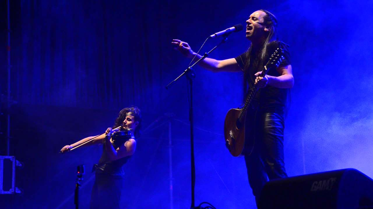 Verval and Flavia in concert.